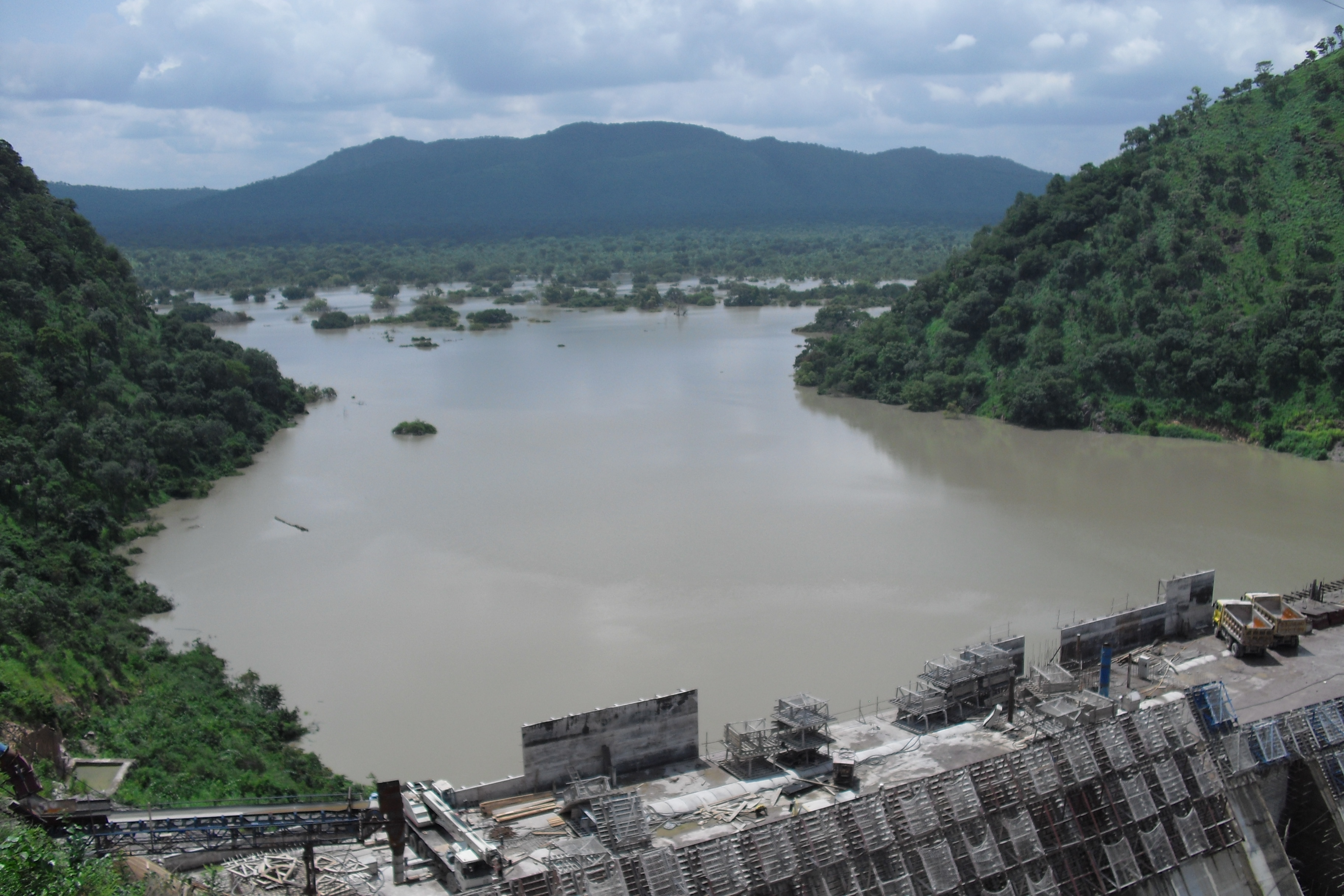 The reservoir behind the Bui Dam started to fill up in 2011 flooding the area